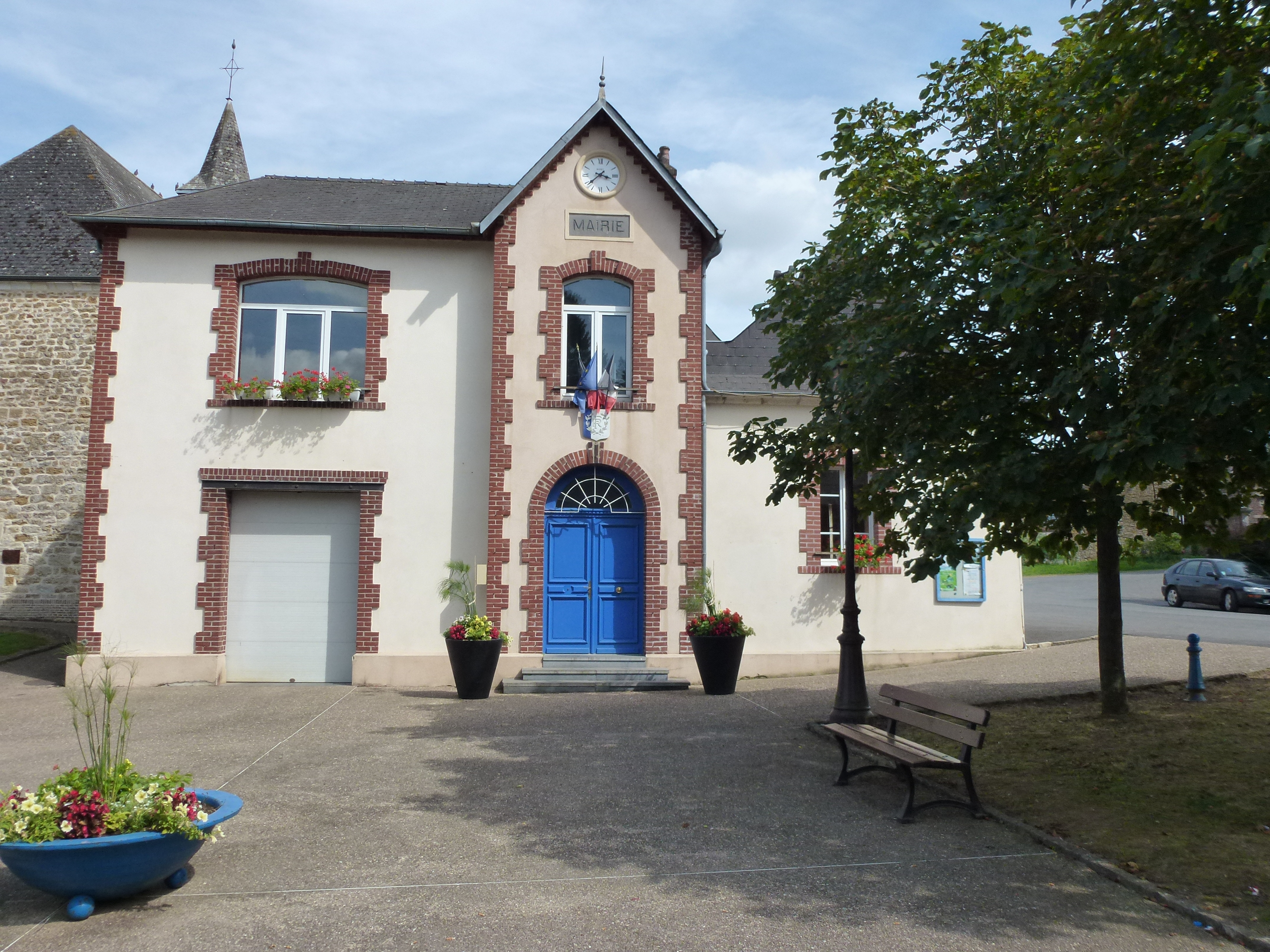 Fligny (Ardennes) mairie